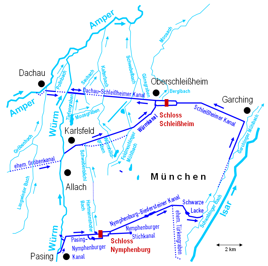 Northern Munich channel system (Germany, Bavaria)